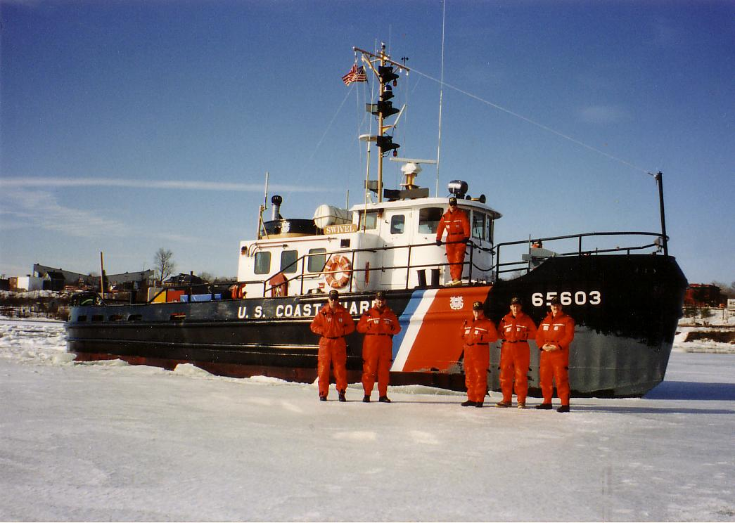 1992 Ice Breaking at Bangor Maine on the Penobscot River